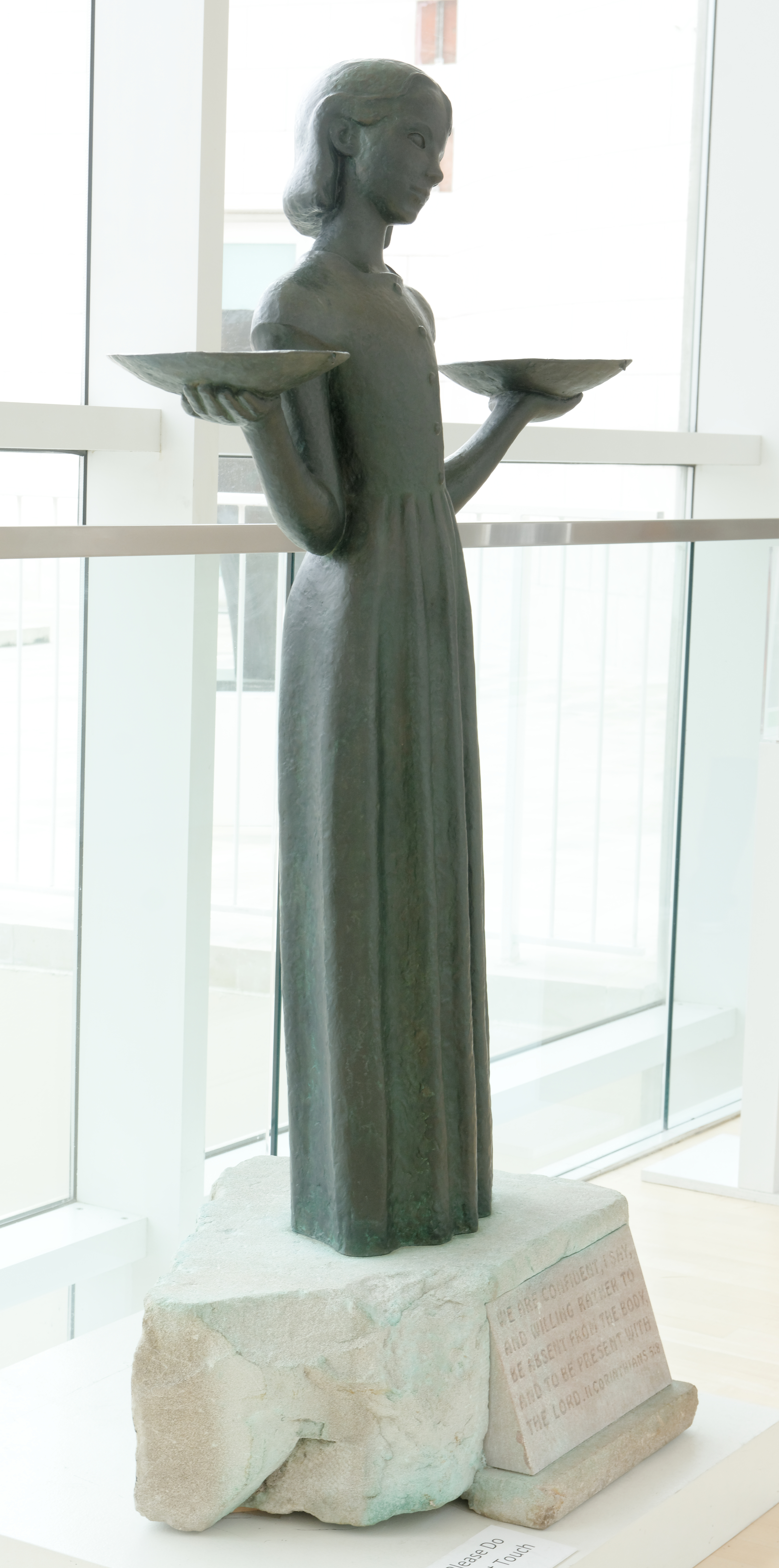 The Bird Girl statue, in the Telfair Jepson Museum in Savannah, Georgia, US (note that it is extremely backlit). The statue was made in 1936 by Sylvia Shaw Judson.